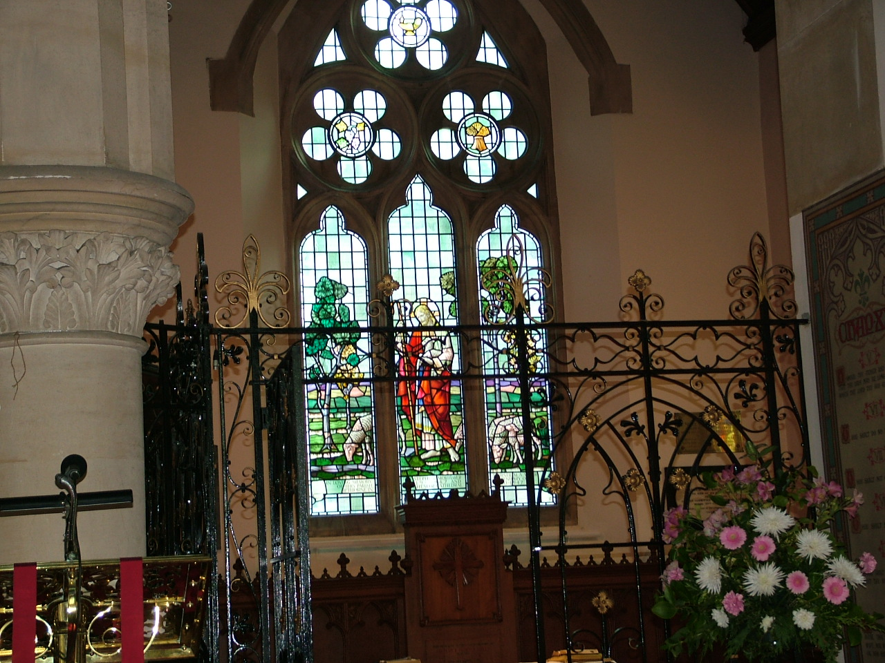 Canon Warner window, Holy Trinity ,Eastbourne, Sussex, England.